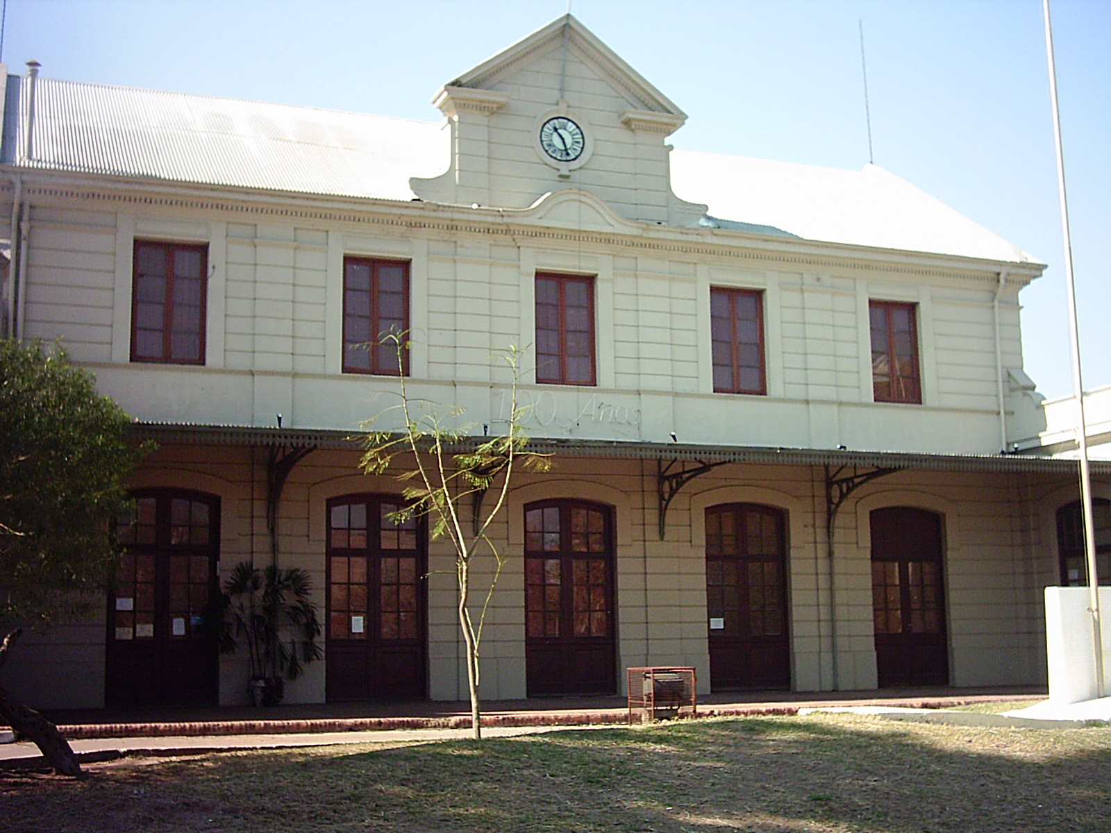 Front view of Museo de Ciencias Naturales Augusto Schulz, which is settled in the building of Ferrocarril Santa Fe Station (its rails have been taken out) in Resistencia, Chaco, Argentina.